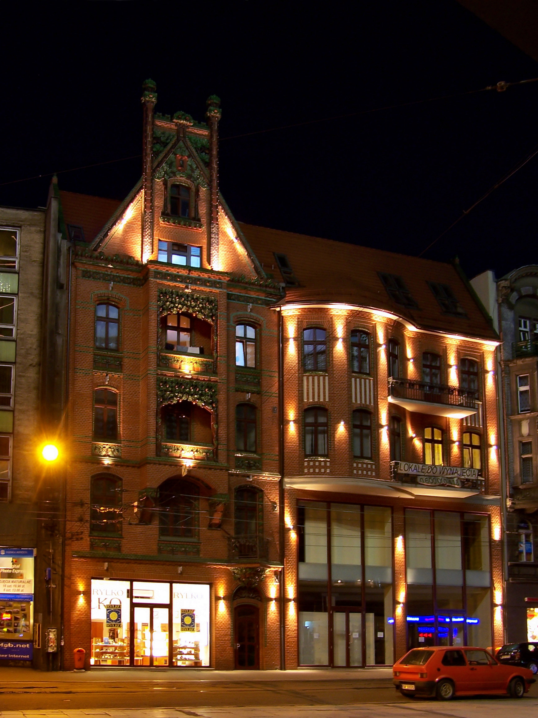 Center of Katowice by night.